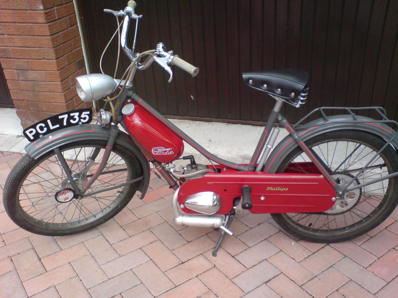 1960 Mark 1 Phillips Panda restored by A.Marriott